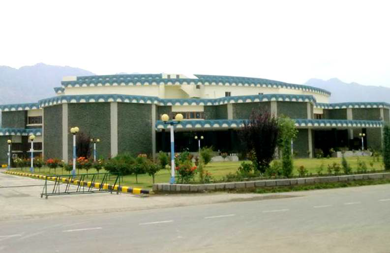 This Complex is one of the finest facilities in the Valley of Kashmir for holding Programs, Seminars, Symposia.